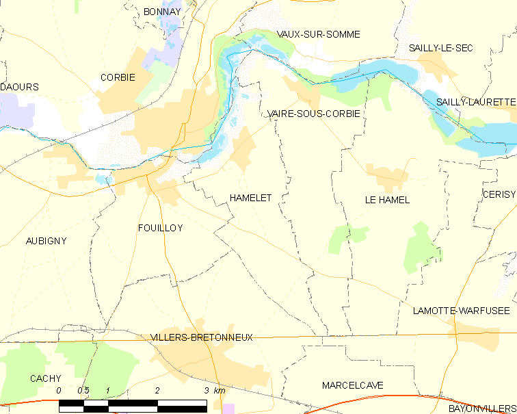 Map of French municipality Hamelet